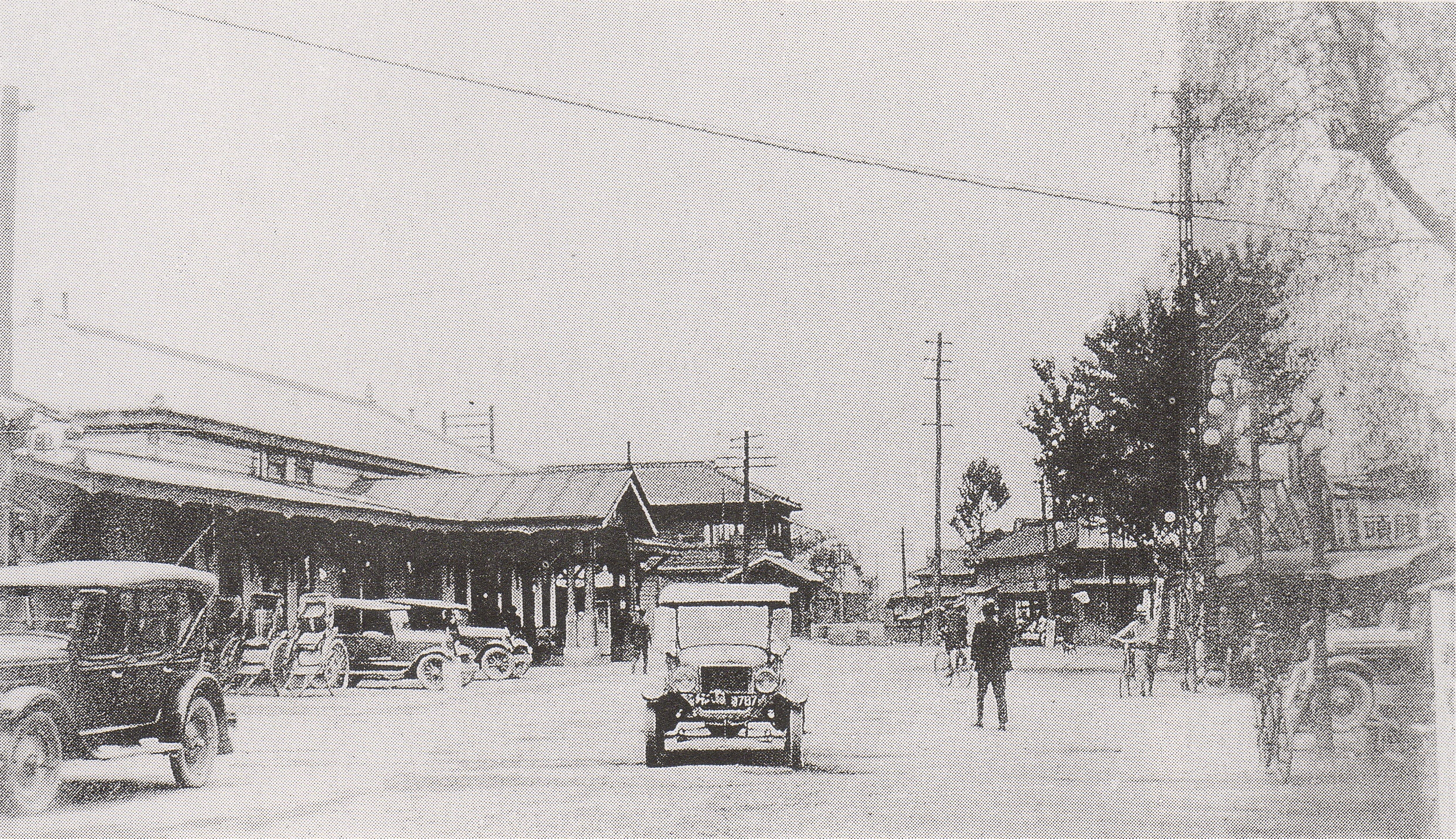 Nogata station of Japan National Railway, Nogata, Fukuoka, Japan. The photo is captioned that it was taken in 1928, therefore under old copyright law of Japan, the copyright of the photo had already expired.